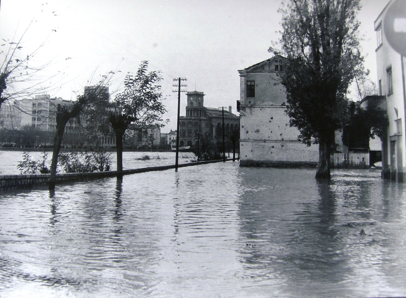 Quay Dimitar Vlahov, leading to Stone Bridge, 1962 This media file is produced by Wikipedian in Residence in Category:Wikipedian in Residence at DARM in 2016.